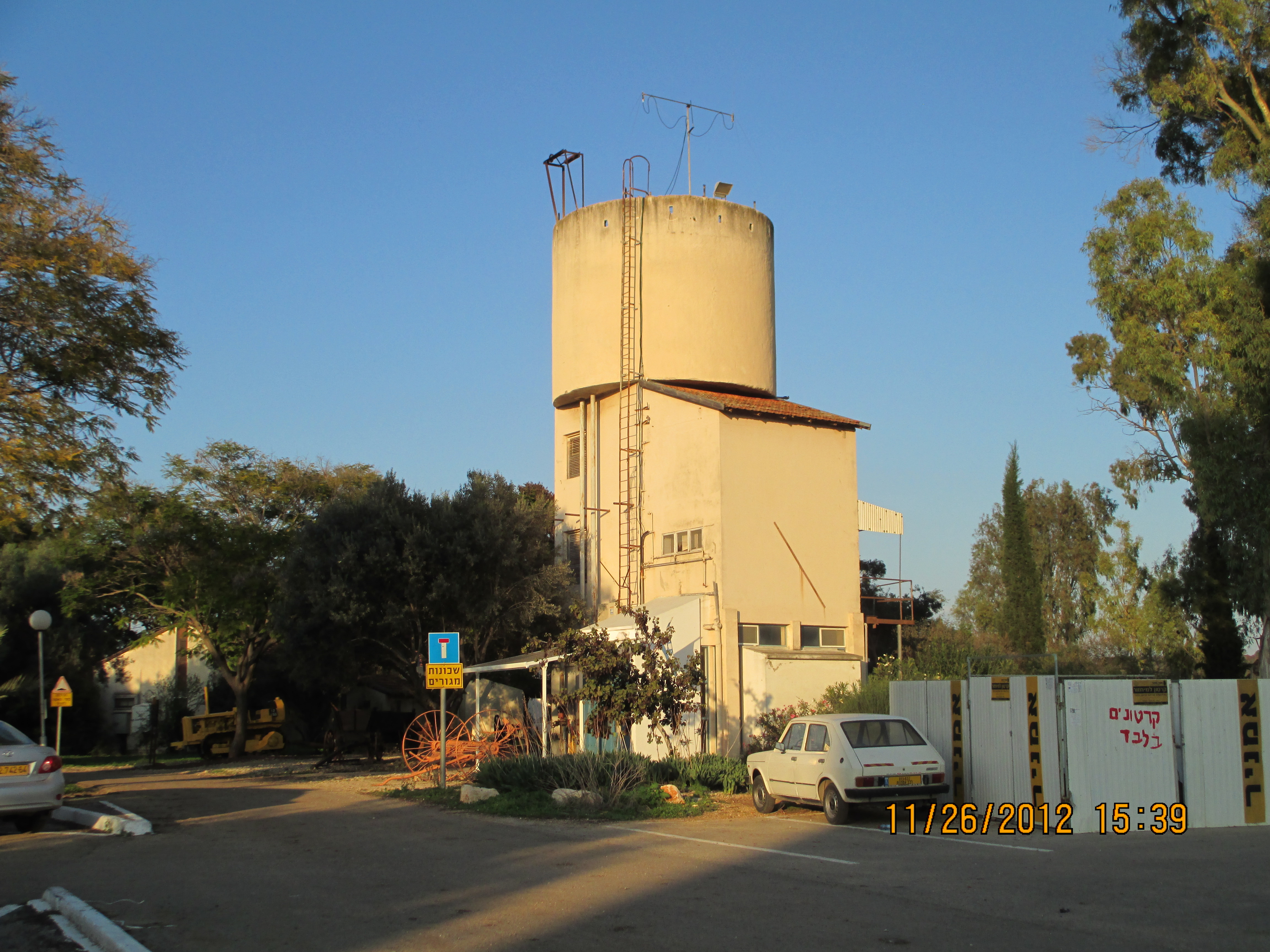 Water tower in Kibbutz Ramat Yohanan